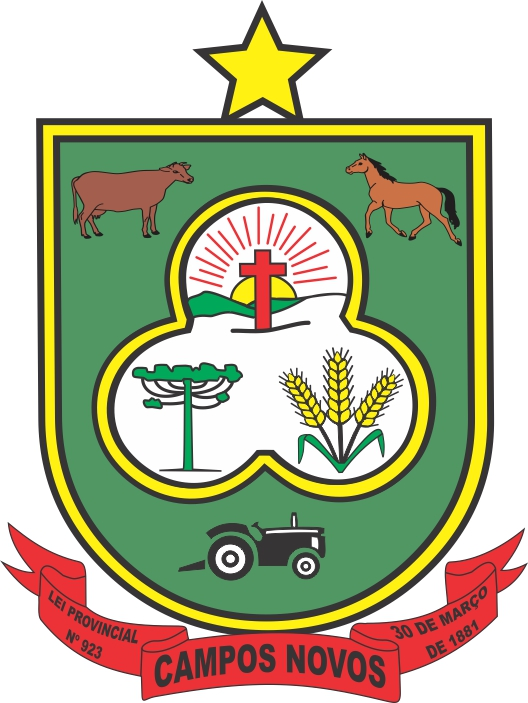 Coat of arms of the municipality of Campos Novos - SC - Brazil